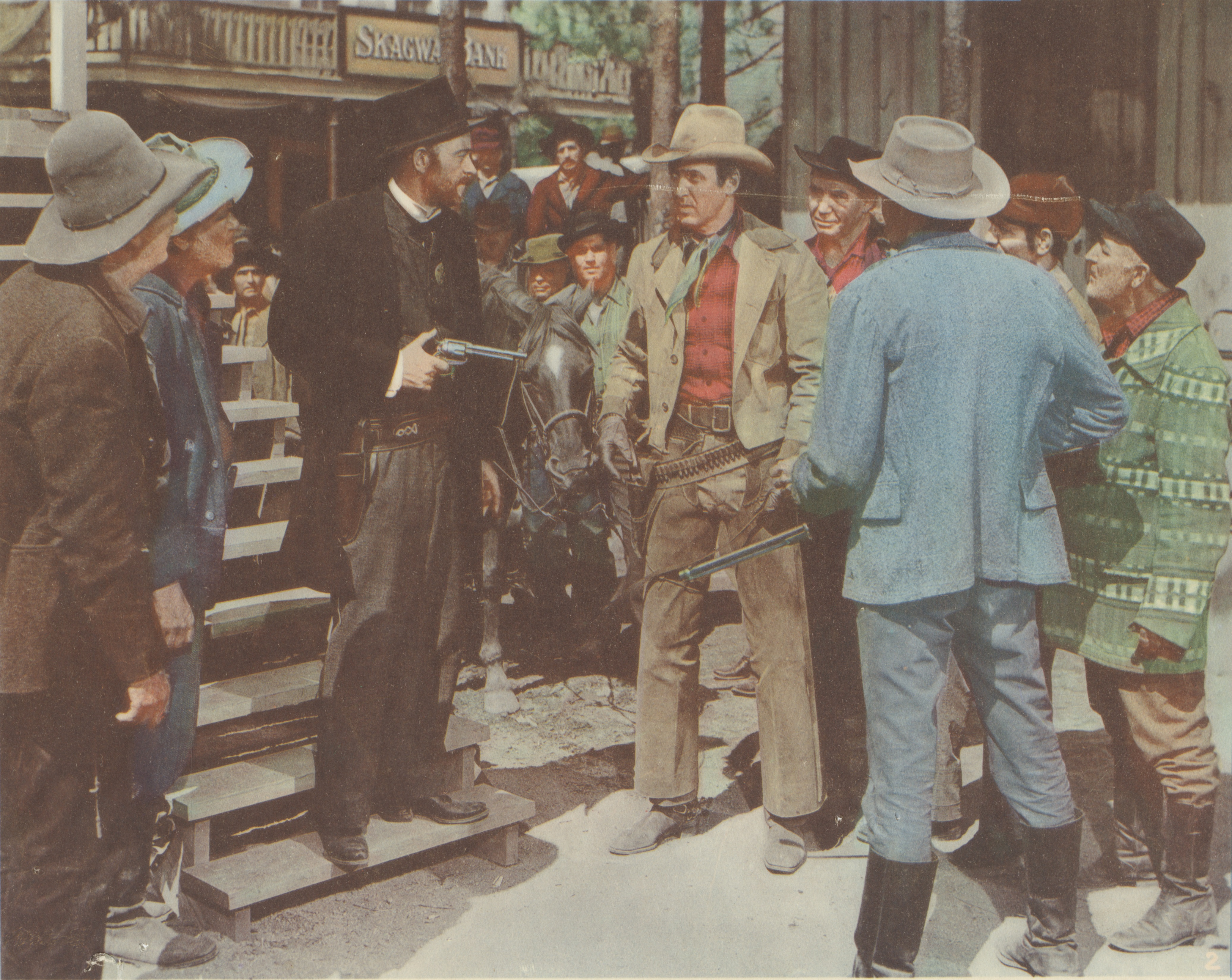 Cropped image of lobby card for The Far Country with James Stewart